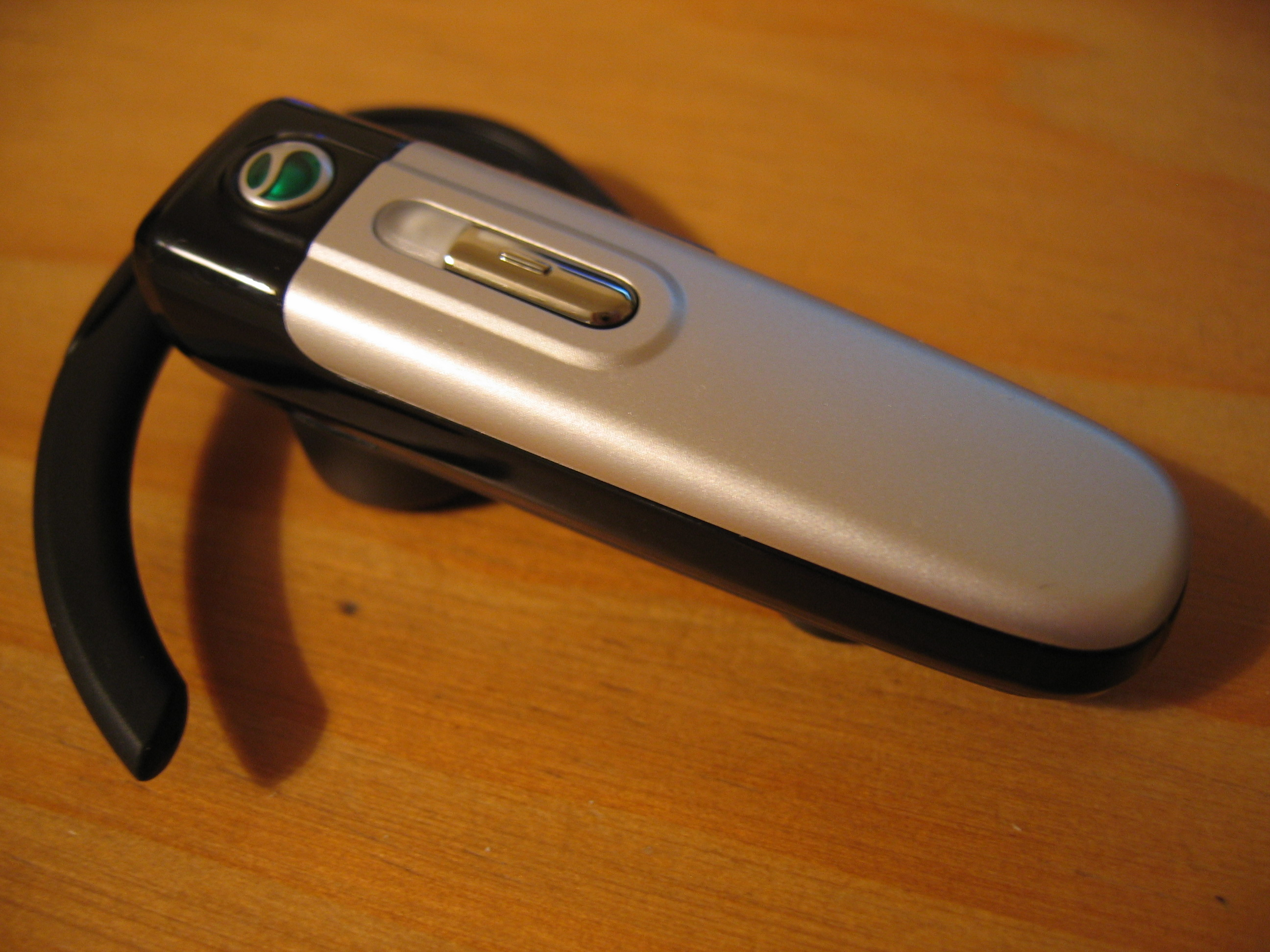 My new "Sony Ericsson Bluetooth Headset HBH-PV705". Got it for chatting on my PlayStation 3, and probably Skype as well, and my phone. Only thing is I need a bluetooth dongle for Skype, so....Amazon, here we come. :P The silver top comes off, too. I think the battery is under it. Not pulled it off personally though. :P Bluetooth 1.2, up to 12 hours talk time, 300 hours standby, and it weighs a whopping....14g!